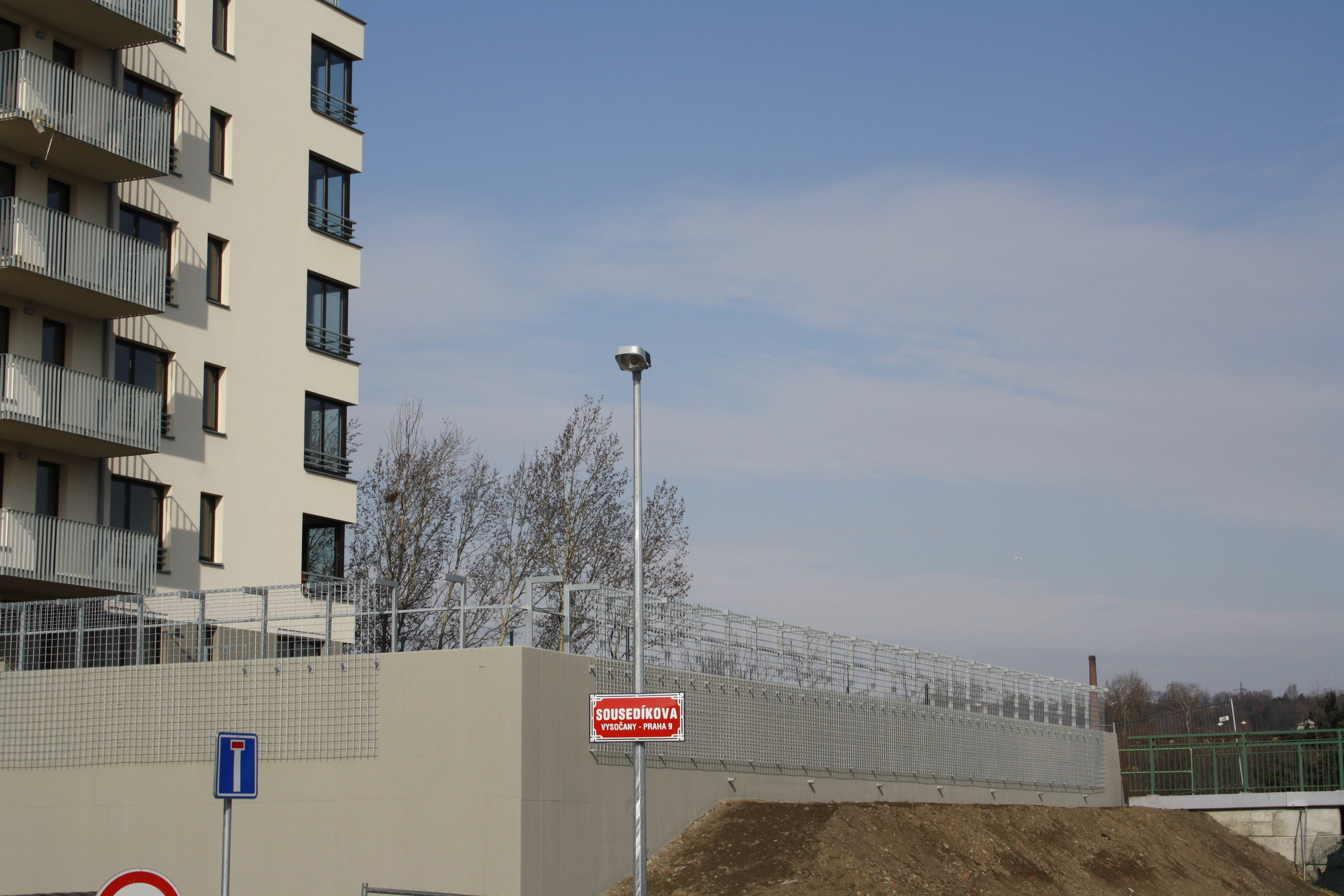 Sousedikova street, Prague, Vysocany